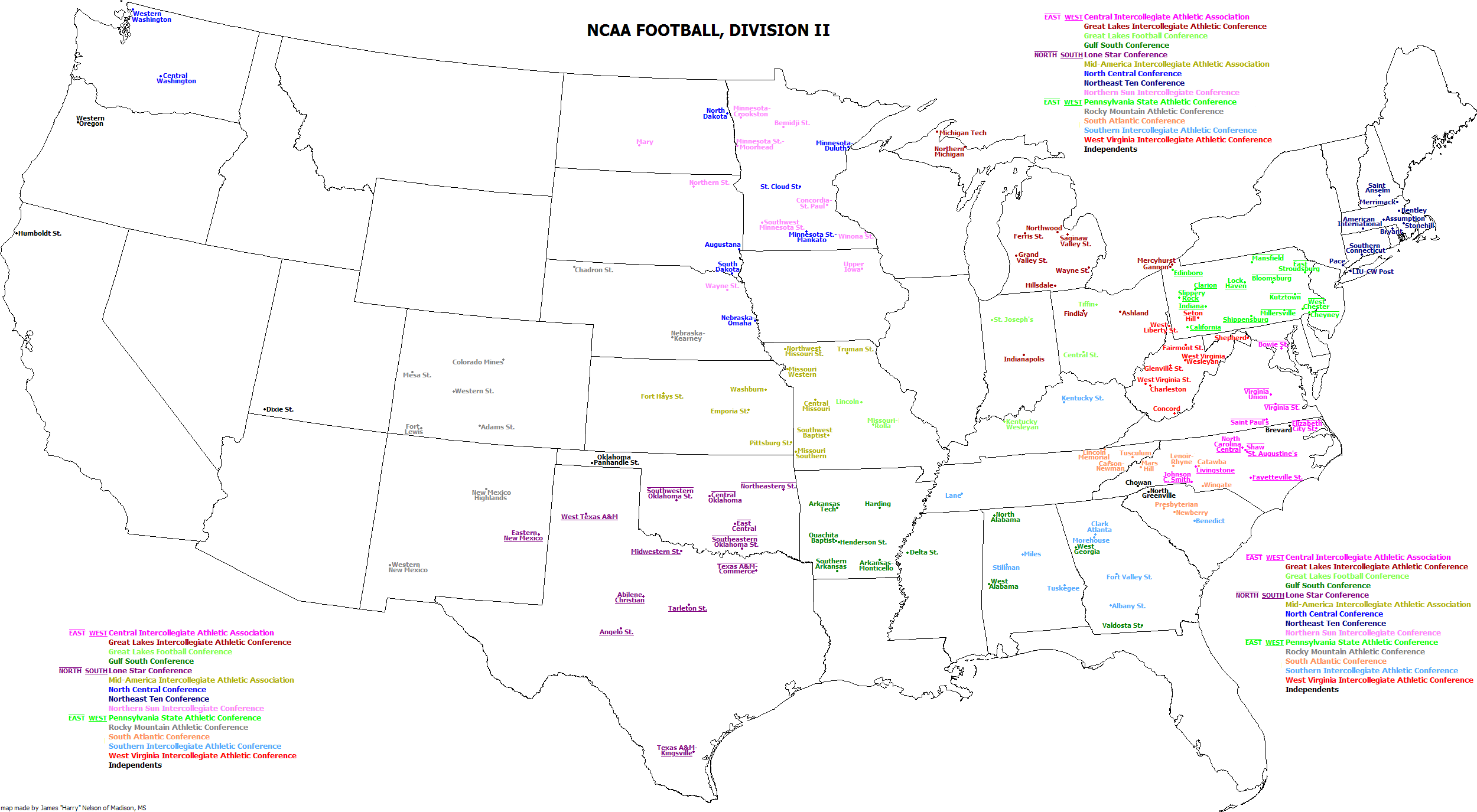 A map of all National Collegiate Athletic Association (NCAA) Division II football schools. Error: In North Carolina the map is wrong, the Brevard College and the Chowan College are backwards, Brevard College is in the southern mountains and Chowan College is near the northern coast. Error: Nebraska-Omaha is now in the MIAA. Error: Mansfield has dropped football. Error: University of Incarnate Word started a football program and is part of the Lone Star Conference Error: Mercyhurst and Gannon are now members of the PSAC. Error: Lincoln Memorial does not have football. Error: North Central Conference does not exist anymore Error University of North Dakota is now a member of the Big Sky Conference in Division 1 FCS